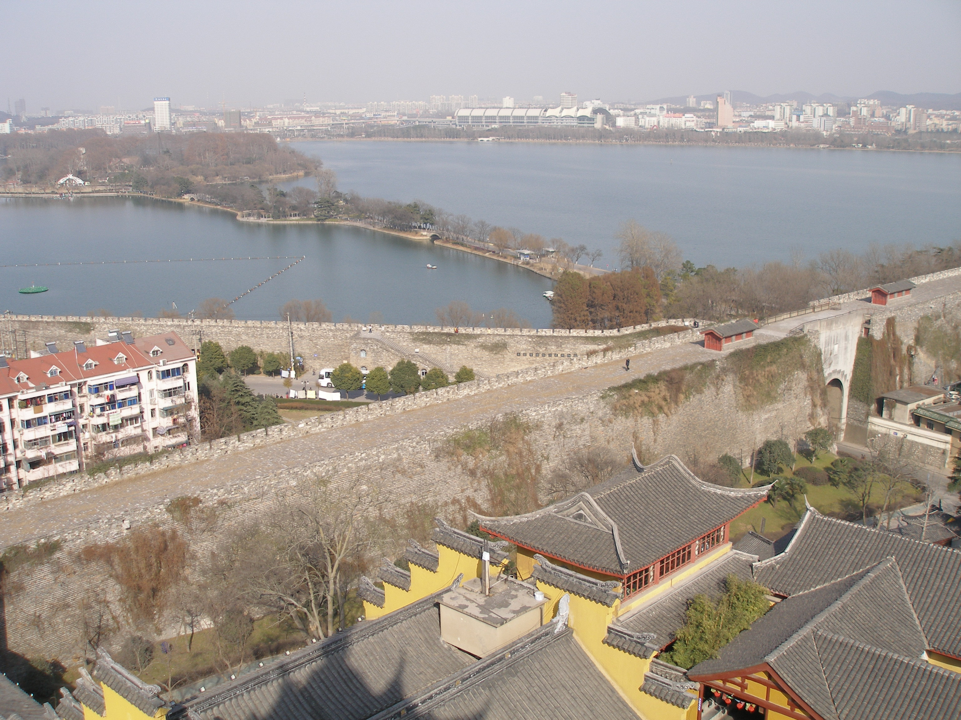 City wall of Nanjing (Liberation gate)